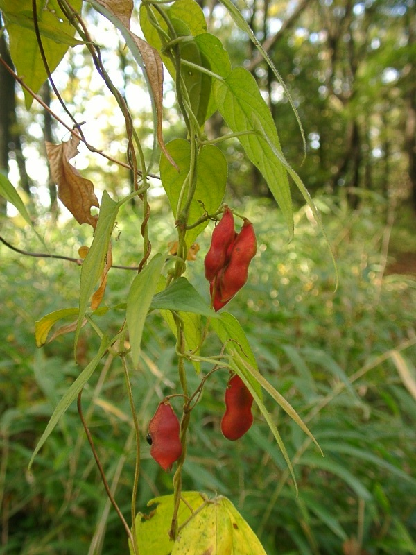 トキリマメの果実(神奈川県横浜市)